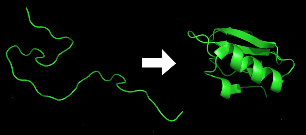 Illustration of the process of protein folding. Chymotrypsin inhibitor 2 from pdb file 1LW6.